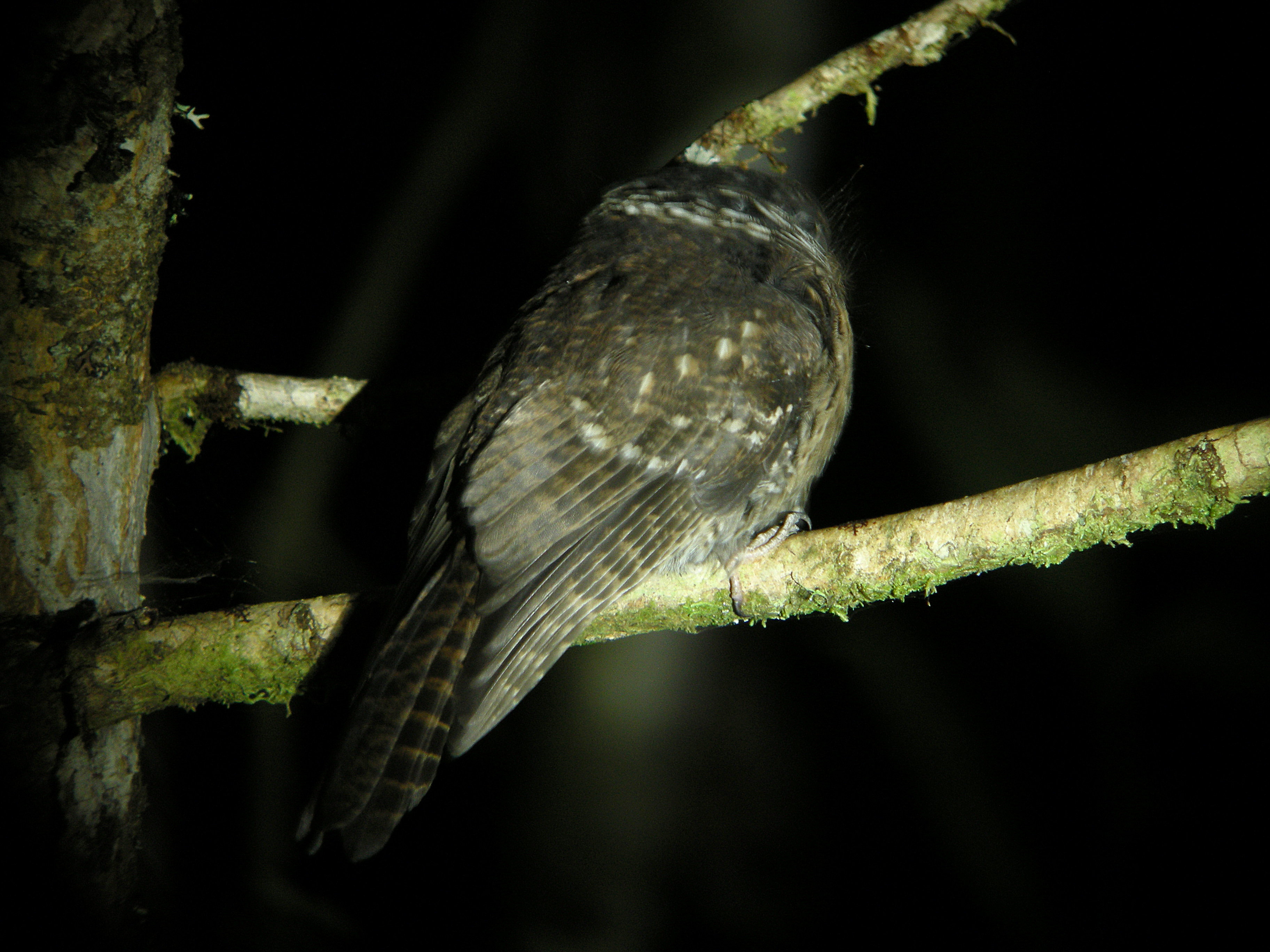 Mountain Owlet-Nightjar